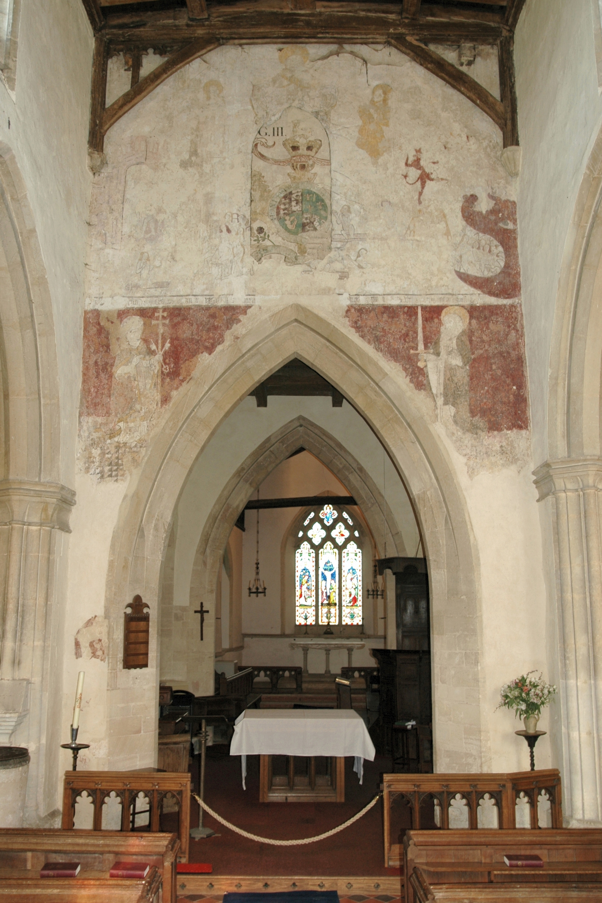 Chancel arch orf the Church of England parish church of the Blessed Virgin Mary, Beckley, Oxfordshire, showing wall paintings.